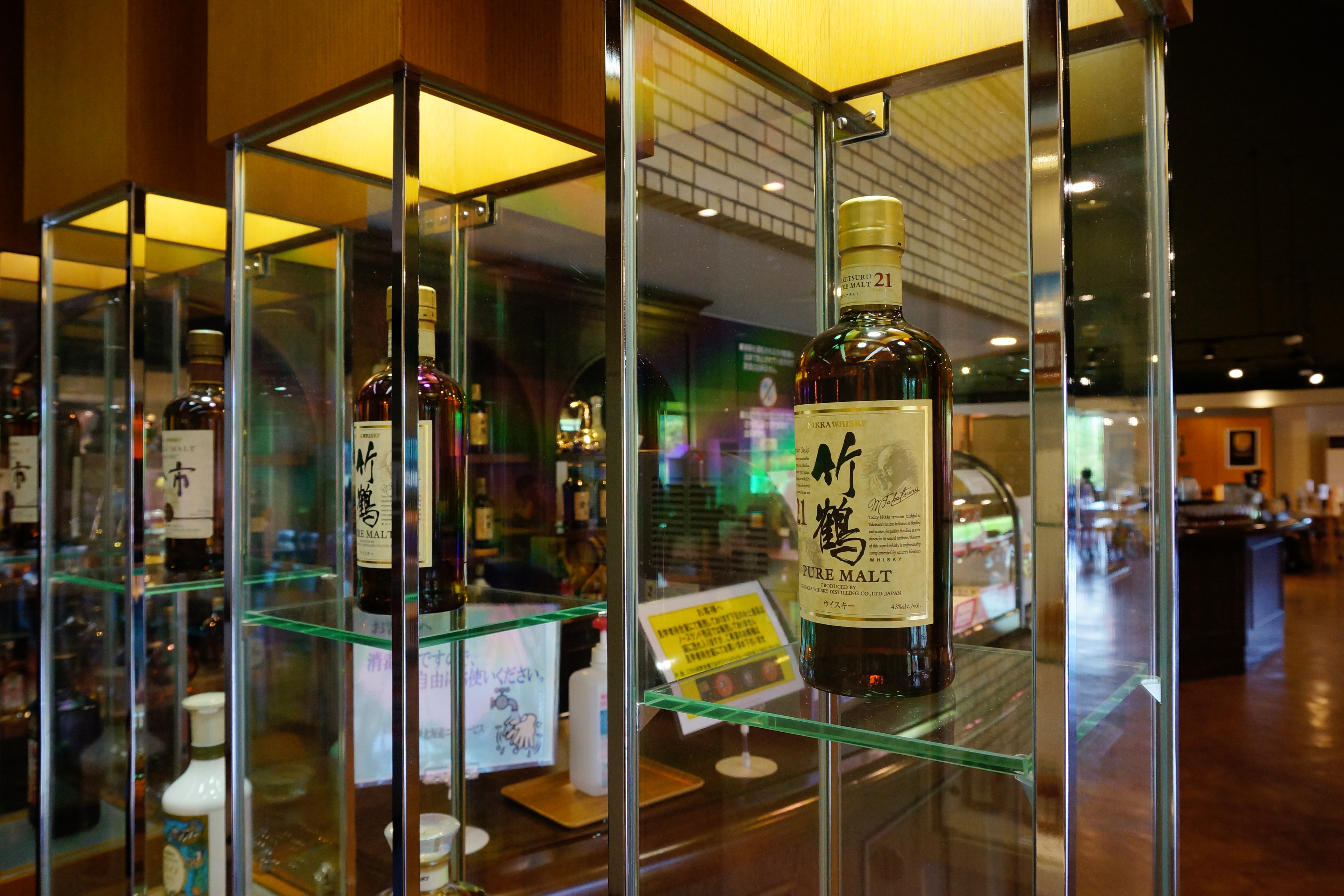 Nikka Wisky Yoichi Distillery in Yoichi, Hokkaido prefecture, Japan.